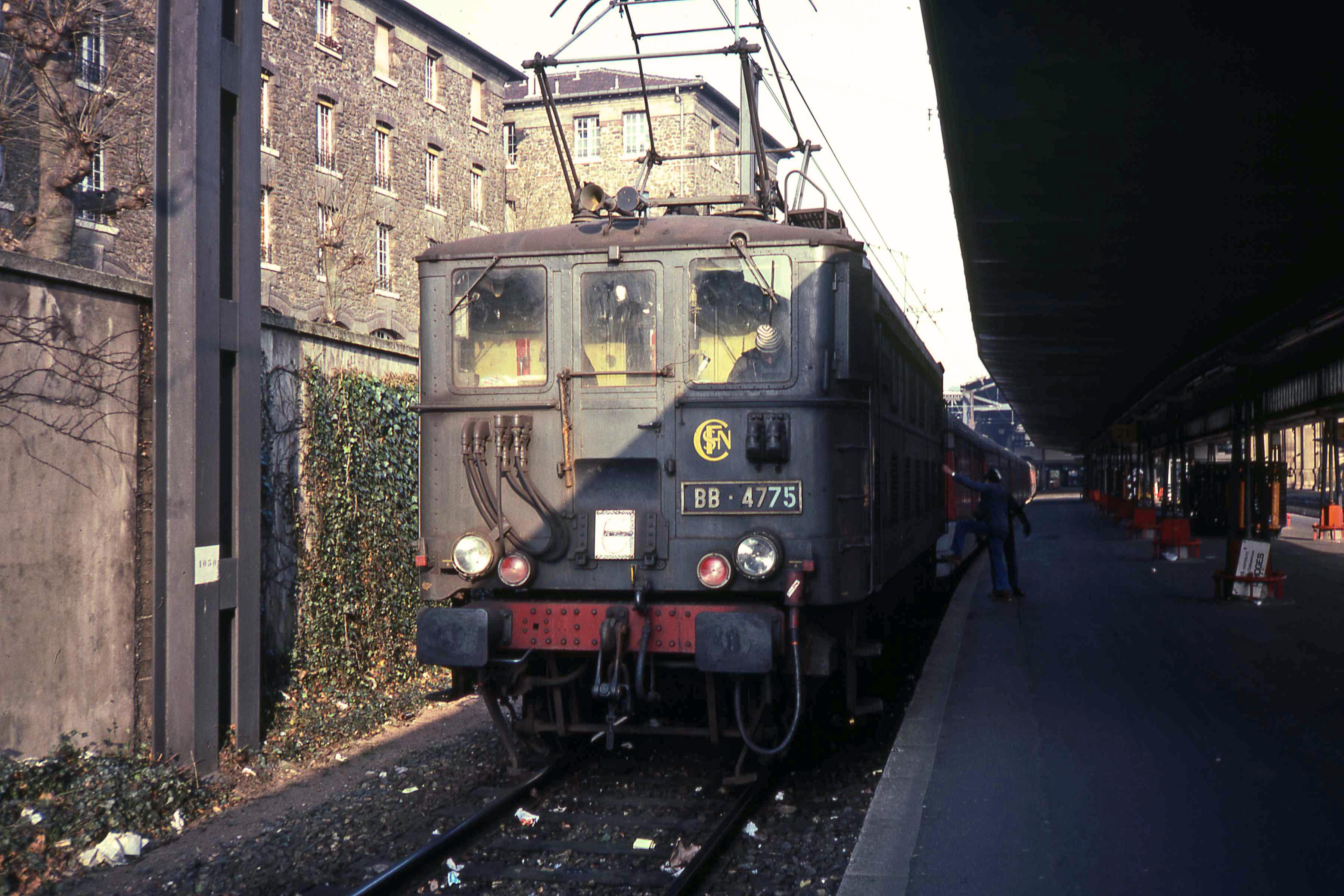 Old 4747 loc used for shunting duties. Behind a Spanish Talgo sleepingcar train.